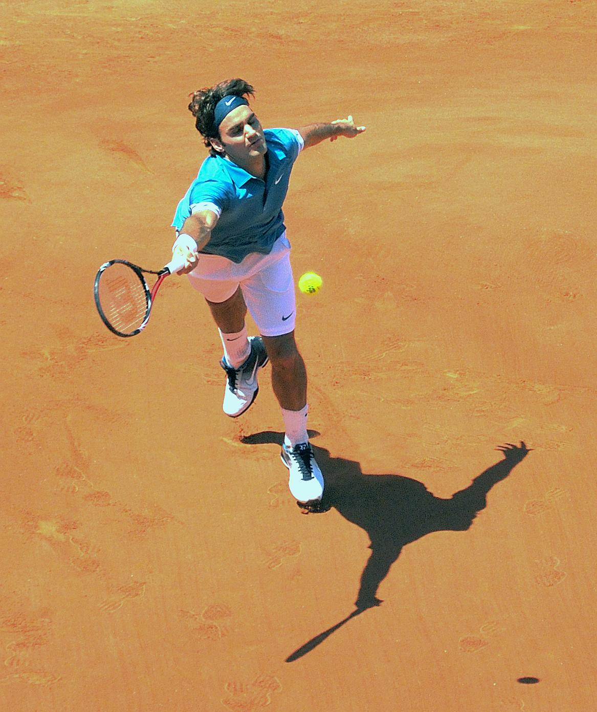 Eyes closed, gliding (gracefully as ever) through the air... Federer and his shadow.